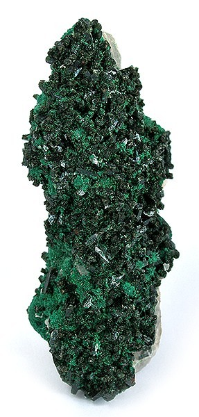 Olivenite, Malachite Locality: Tsumeb Mine (Tsumcorp Mine), Tsumeb, Otjikoto (Oshikoto) Region, Namibia (Locality at ) Size: 4.8 x 2.0 x 1.0 cm. Lustrous, dark olive-green, flattened olivenite prisms richly encrust matrix along with malachite on this excellent and showy elongate plate from Tsumeb. Olivenite is a highly desirable secondary copper arsenate from this now-closed locality. Ex. Rob Smith Collection. A superb display piece with discrete crystals.